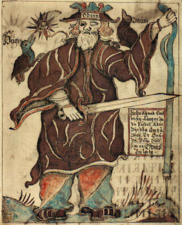 An illustration of the god Odin with his two ravens Huginn and Muninn, from an Icelandic 18th century manuscript.